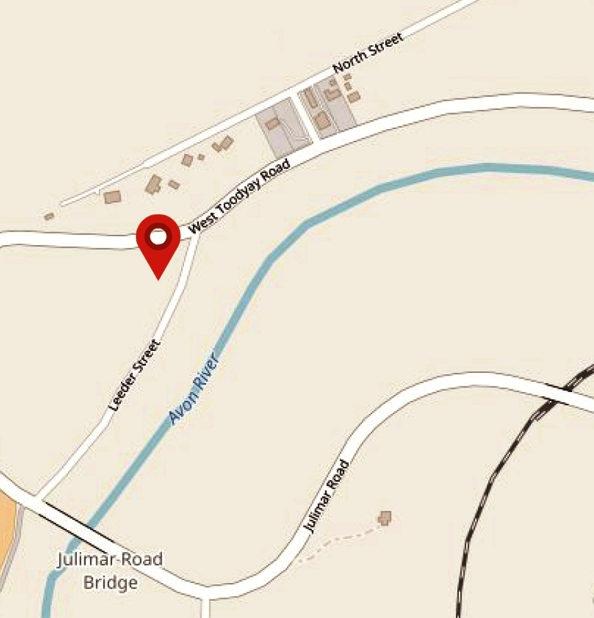 Approximate location of the Highland Laddie Inn, first opened in 1850 as the Bonnie Laddie, and also traded as the Gum Tree Tavern